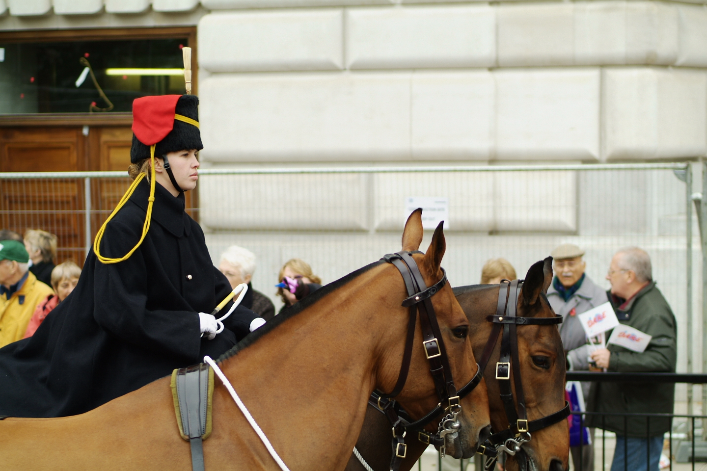 Lord Mayor's Show, London 2006